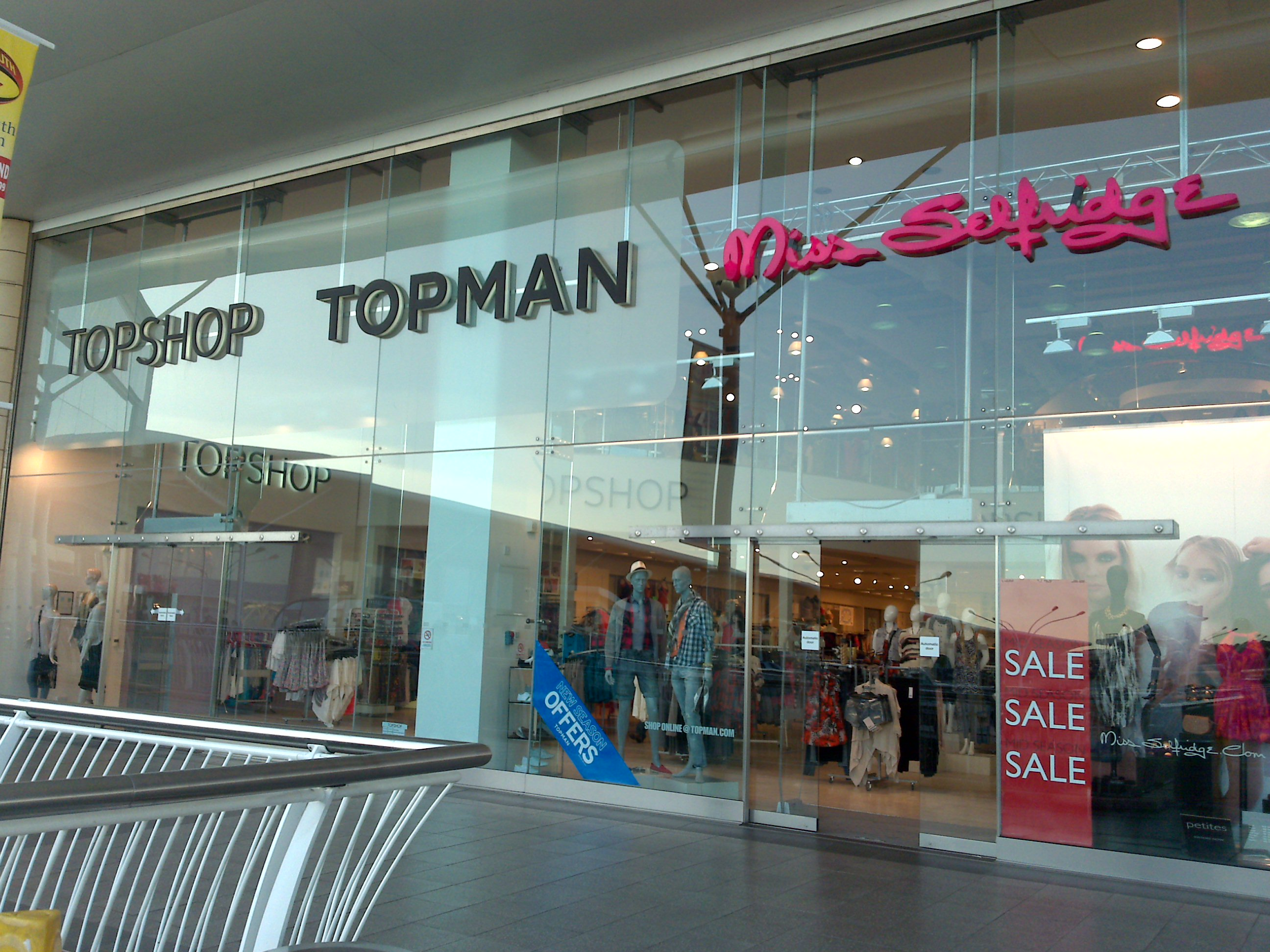 Topshop, Topman & Miss Selfridge at Castlepoint Shopping Centre